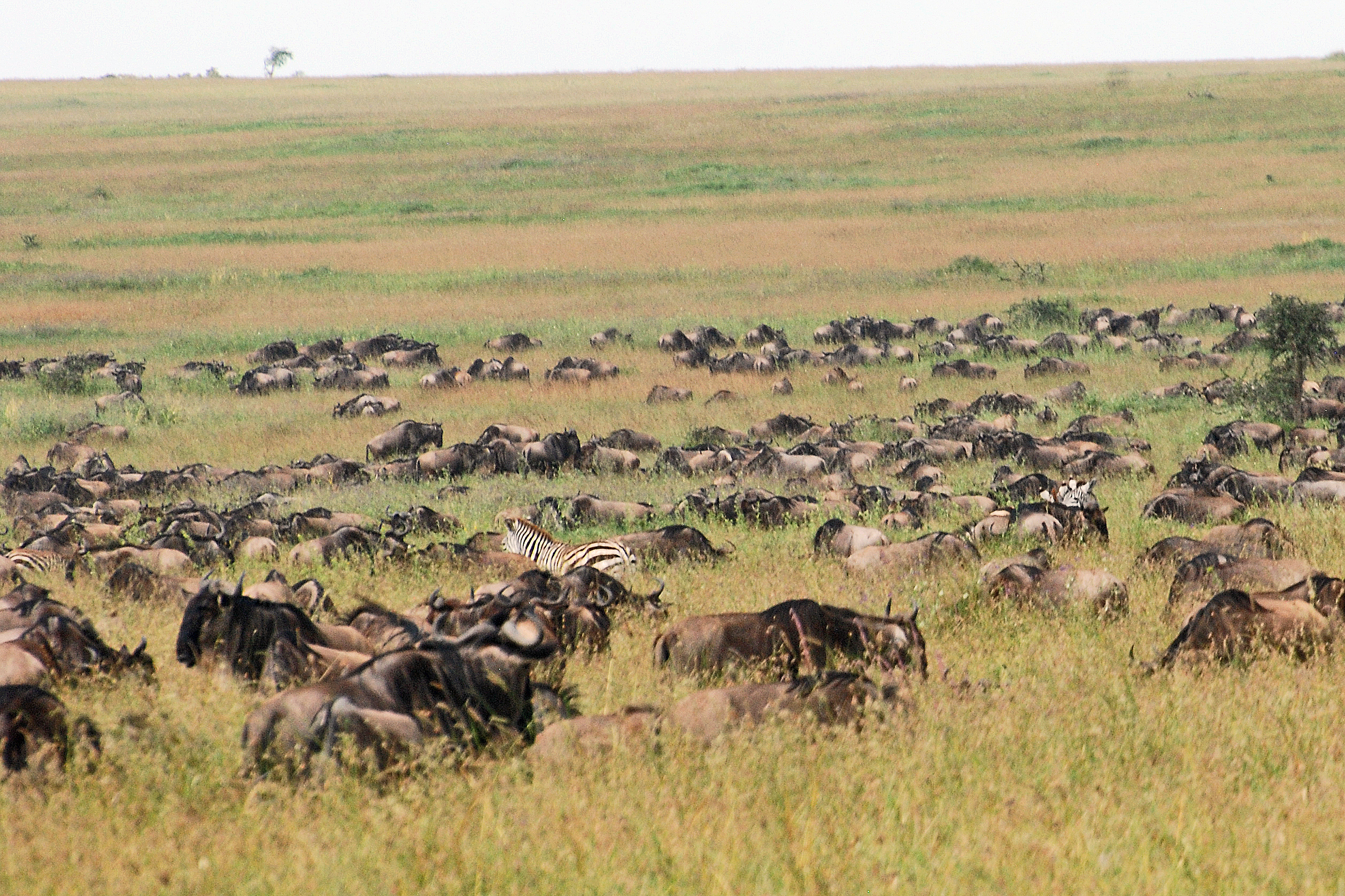 The blue Wildebeest (Connochaetes taurinus), also called the common wildebeest or the white-bearded wildebeest, is a large antelope and one of two species of wildebeest